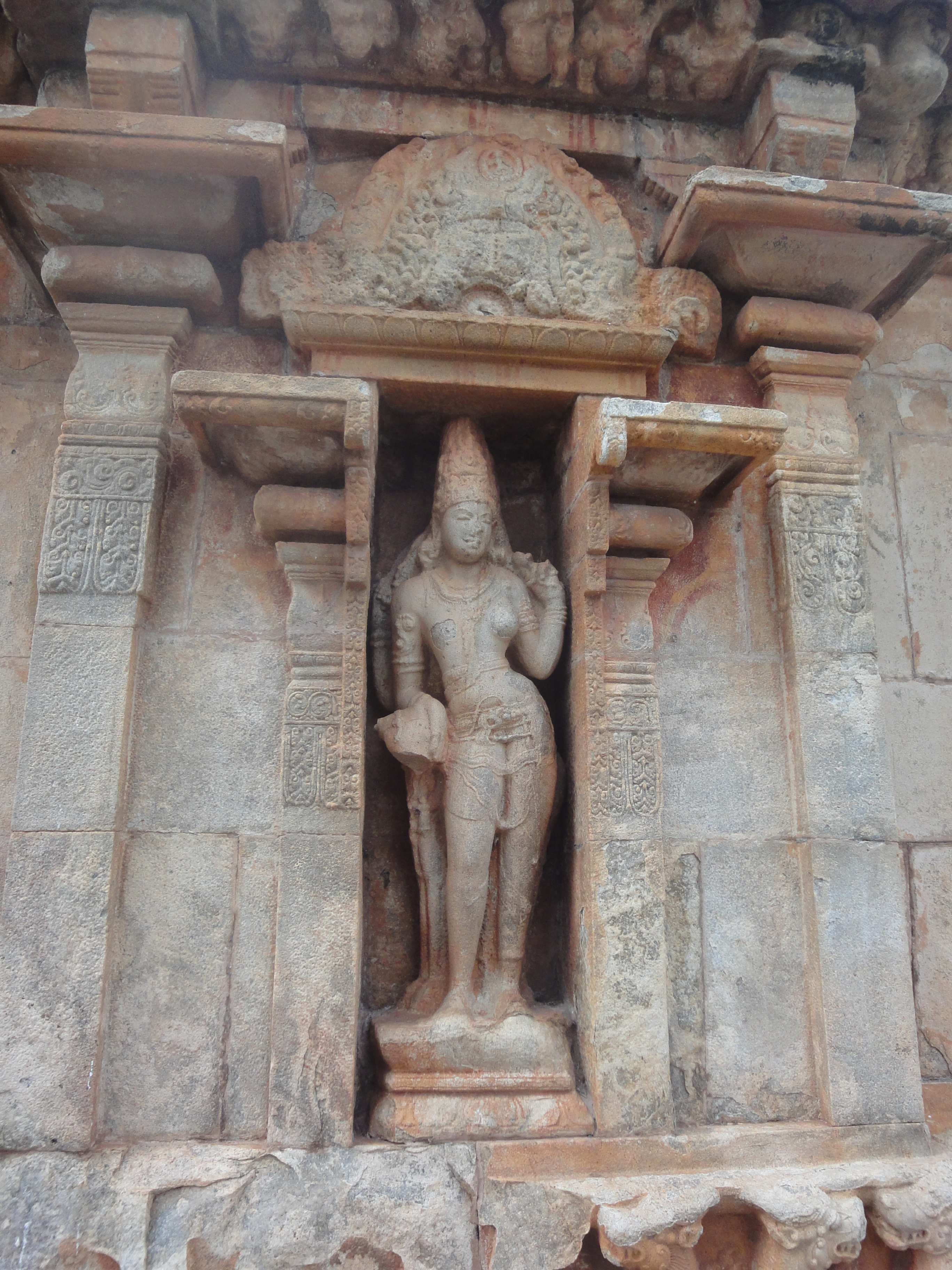 Muvar Koil With Surrounding Sub-Shrines Stone Enclosures Etc.